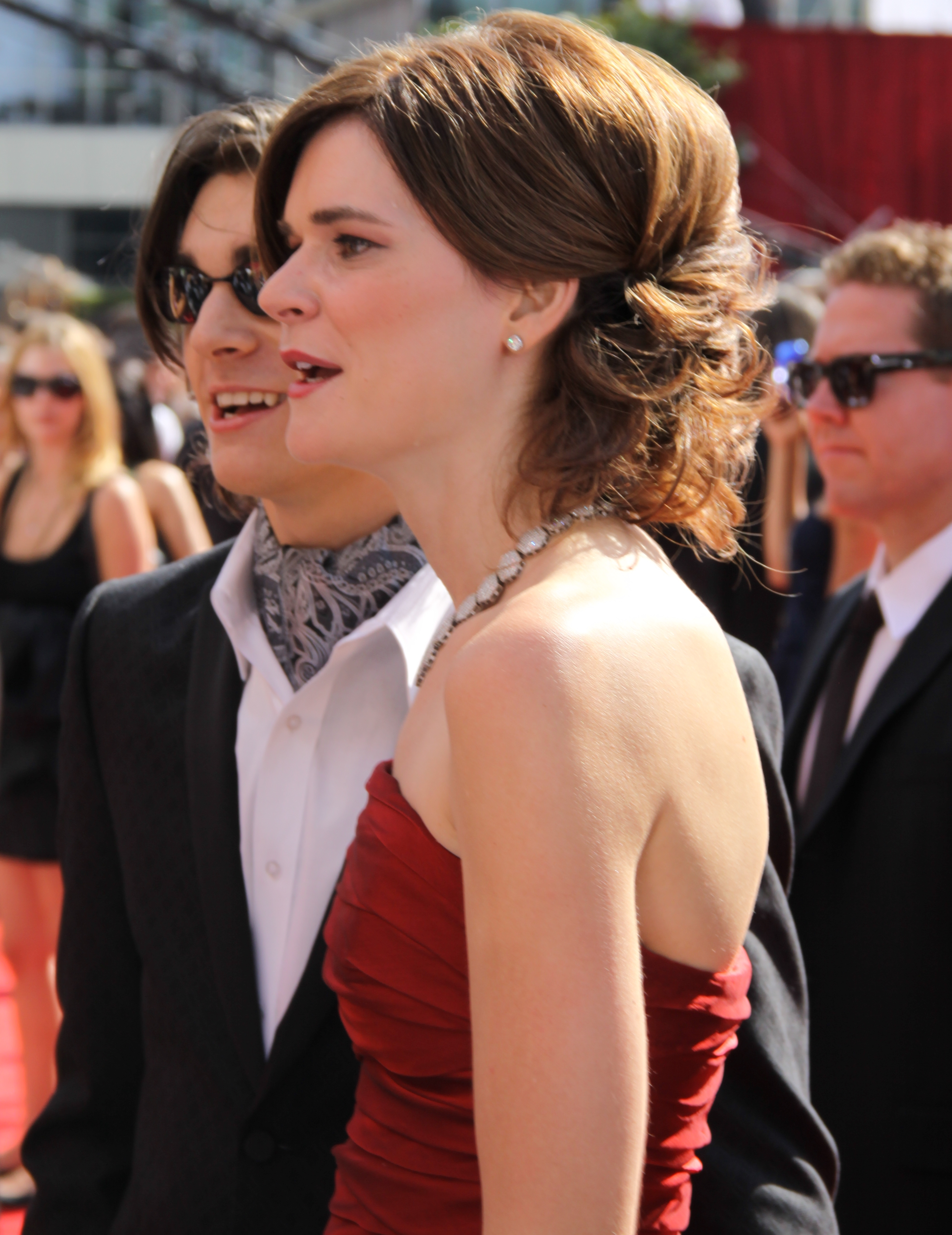 Betsy Brandt from AMC's 'Breaking Bad' at the 2010 Emmys